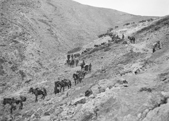 1st Australian Light Horse descending barren hillside before capture of Jericho.